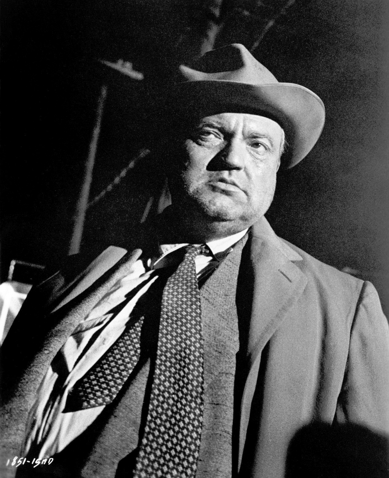 Promotional photo of Orson Welles in Touch of Evil